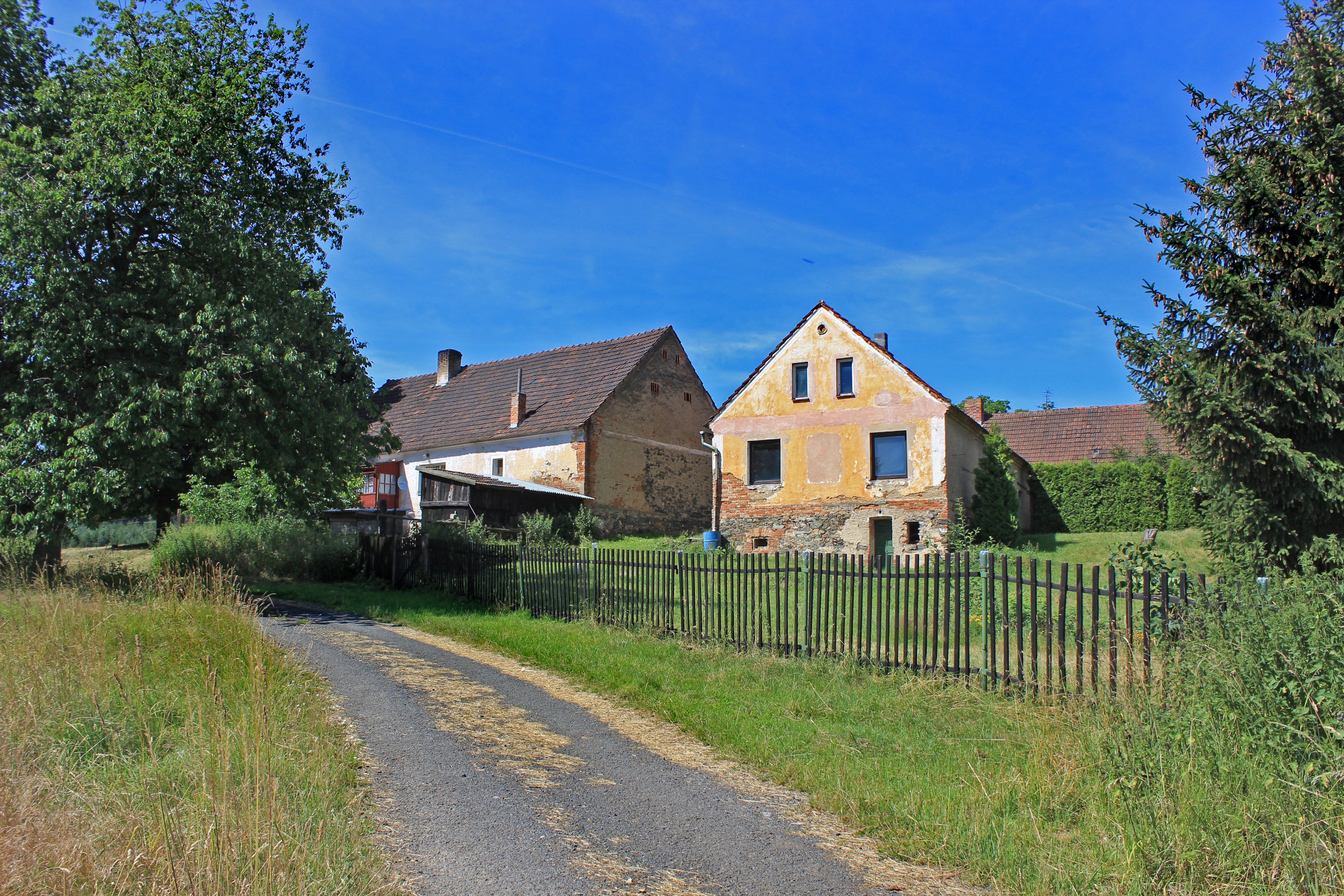 Erazim, part of Mutěnín, Czech Republic.